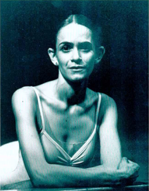 Picture of Brenda Velez during a photo shoot at age 22